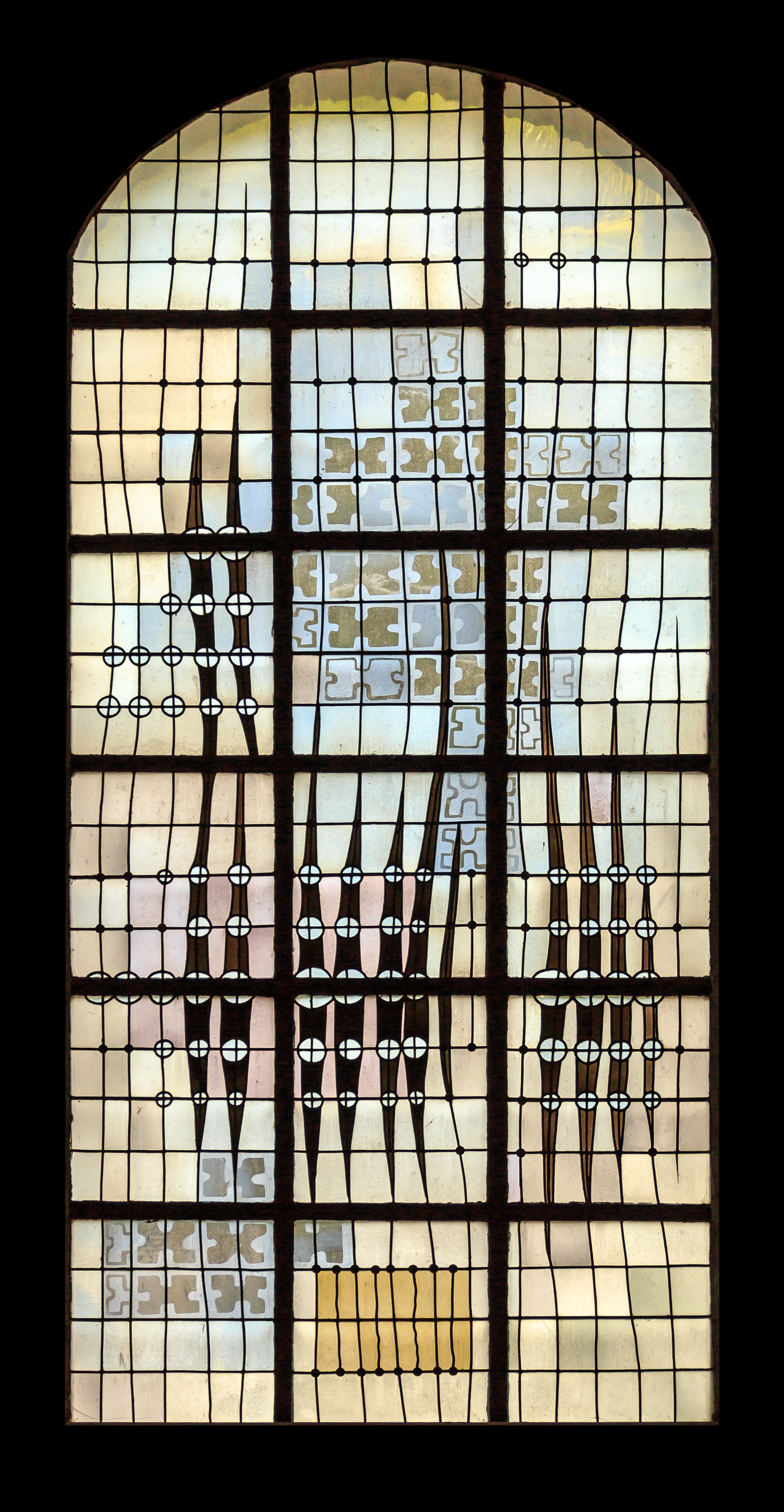 Monschau, Germany: Stained glass window in the catholic church St Mariä Empfängnis nach dem Entwurf von Architekt Stephan Legge (ca. 1966)